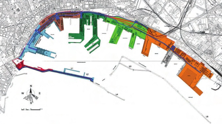 map of the harbour of naples